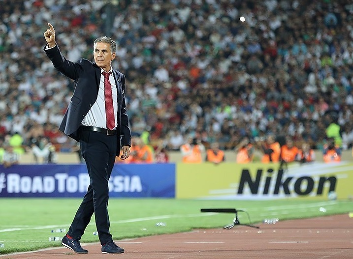 2018 FIFA World Cup qualification – AFC Third Round, Iran-Qatar